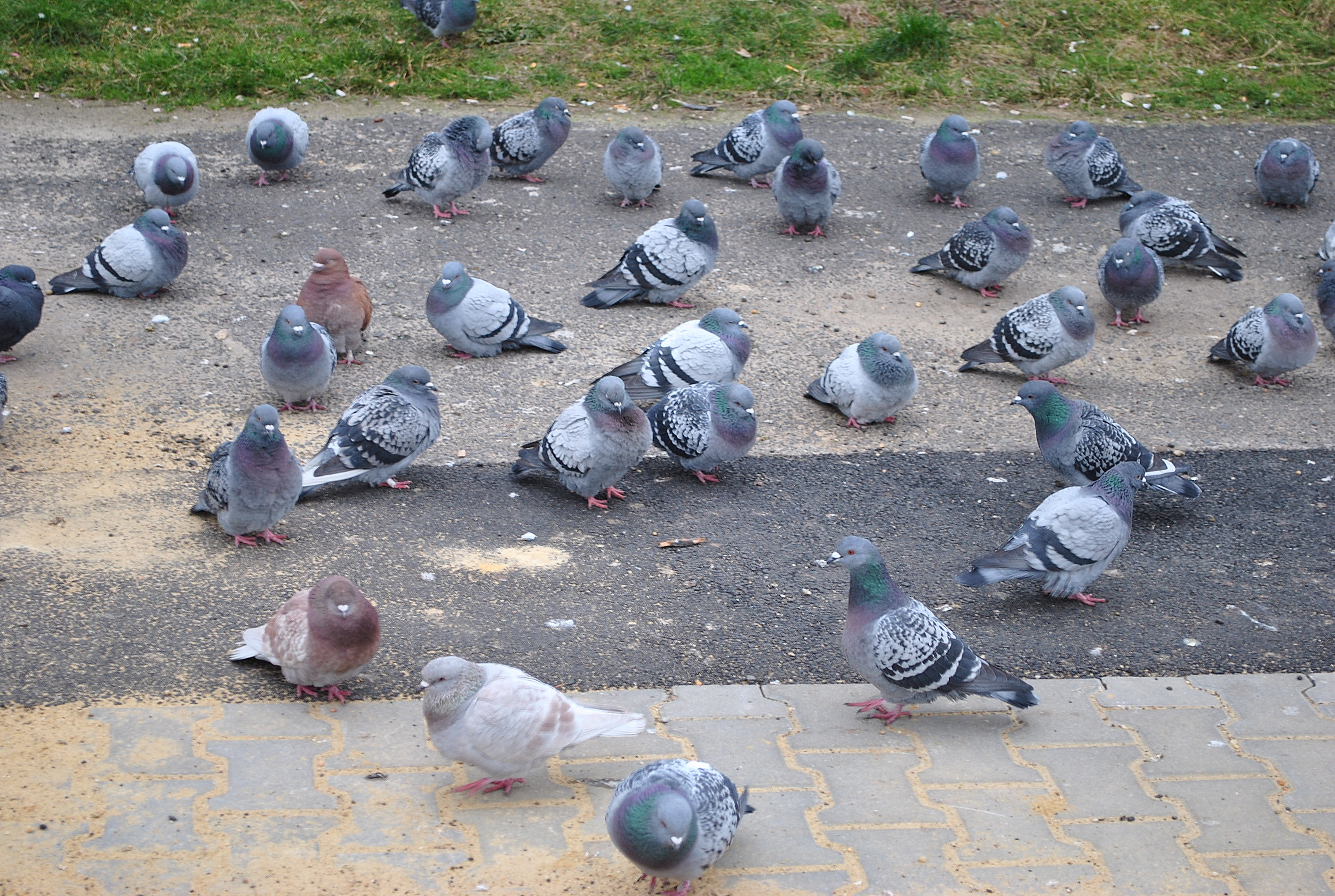 Feral pigeon near Katowice, Osiedle Tysiąclecia.